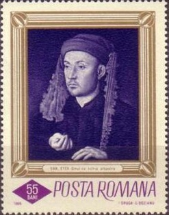 Romanian stamp featuring "Portrait of a Man with a Blue Chaperon" by Jan van Eyck.